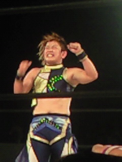 Japanese professional wrestler,Calros Amano. June 13 2010, OZ ACADEMY Shinjuku FACE.